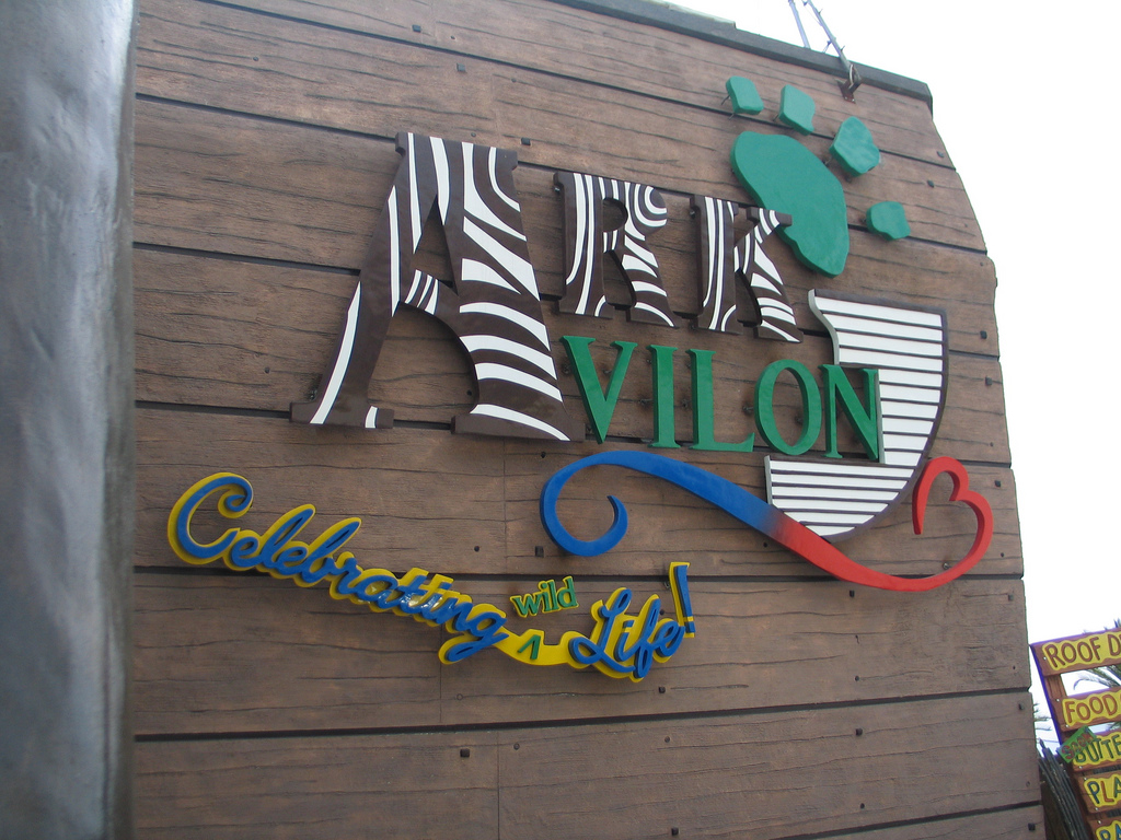 Ark Avilon Zoo, Pasig City, Philippines.